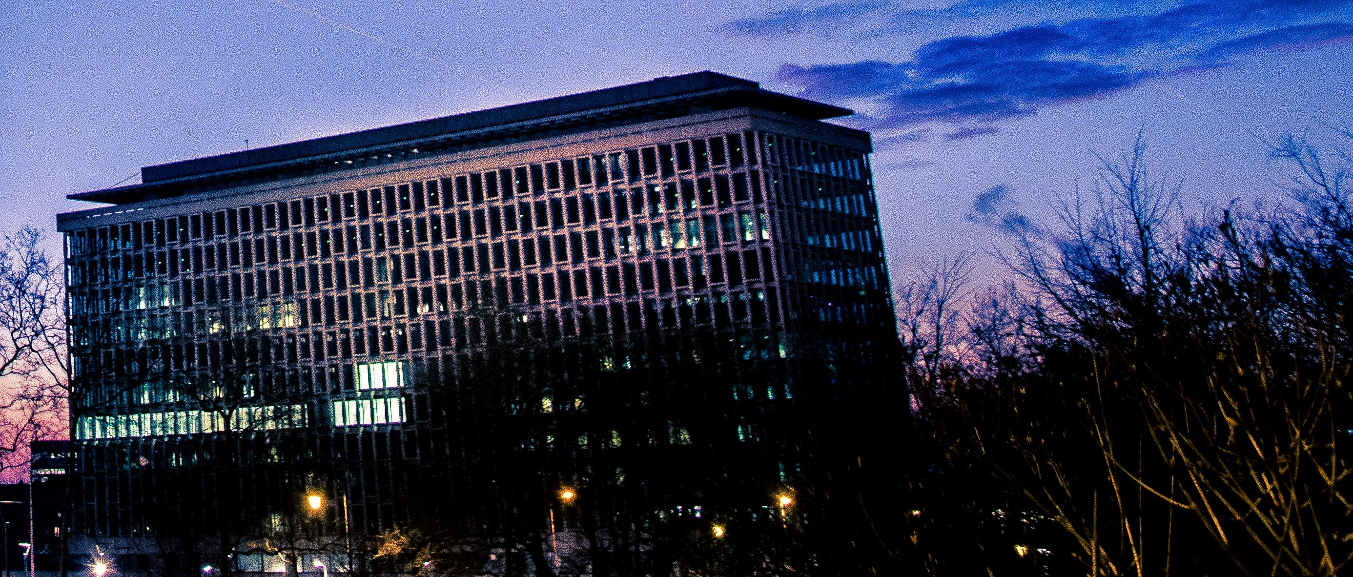 Pacheco Building in Brussels (near Botanique), taken during the blue hour. Slight rework in LR.